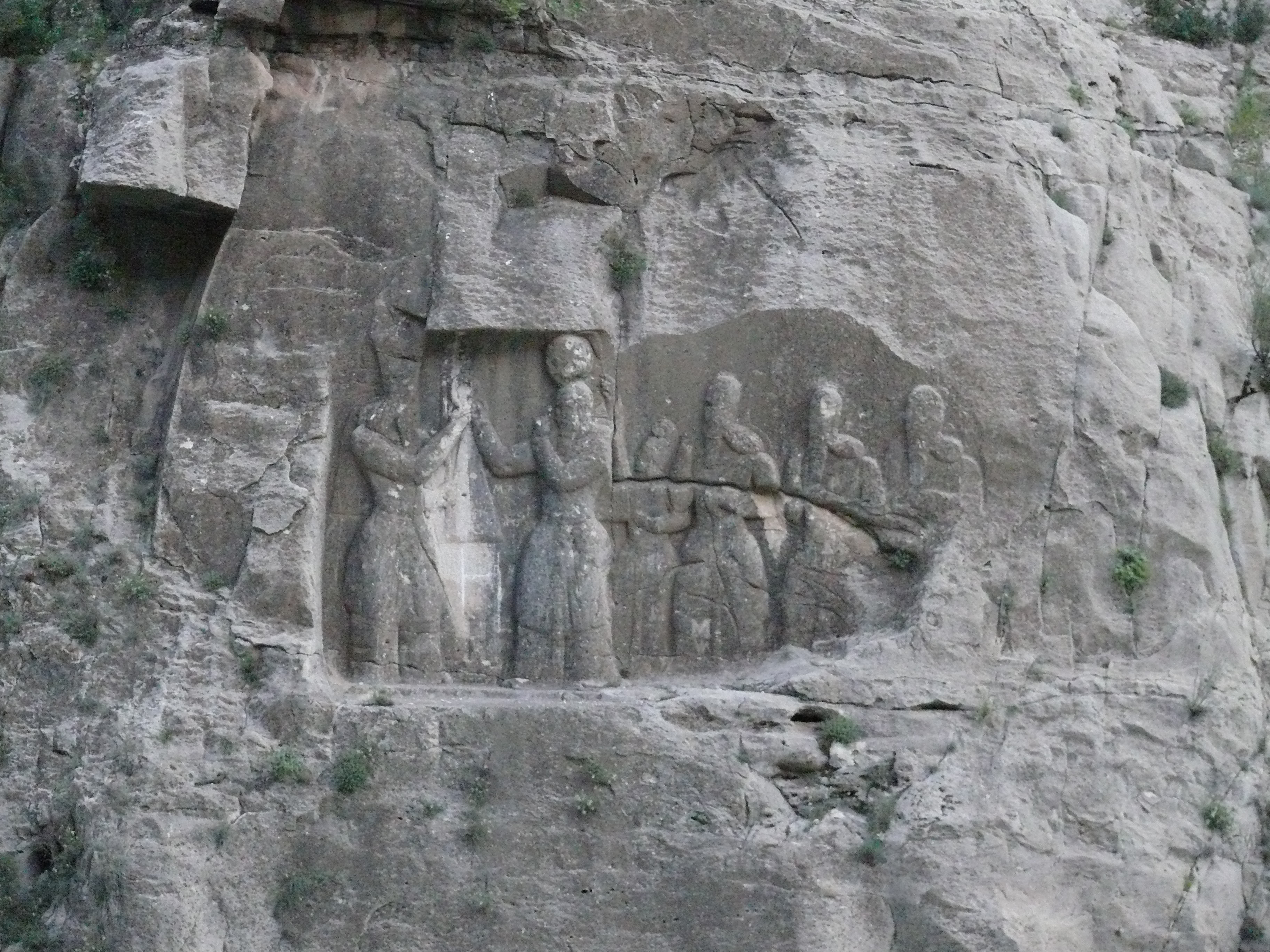 Sassanian firts king Ardachir Ist (aka "Ardachir Babakan") investiture relief at Firuzabad, Iran, Province of Fars.